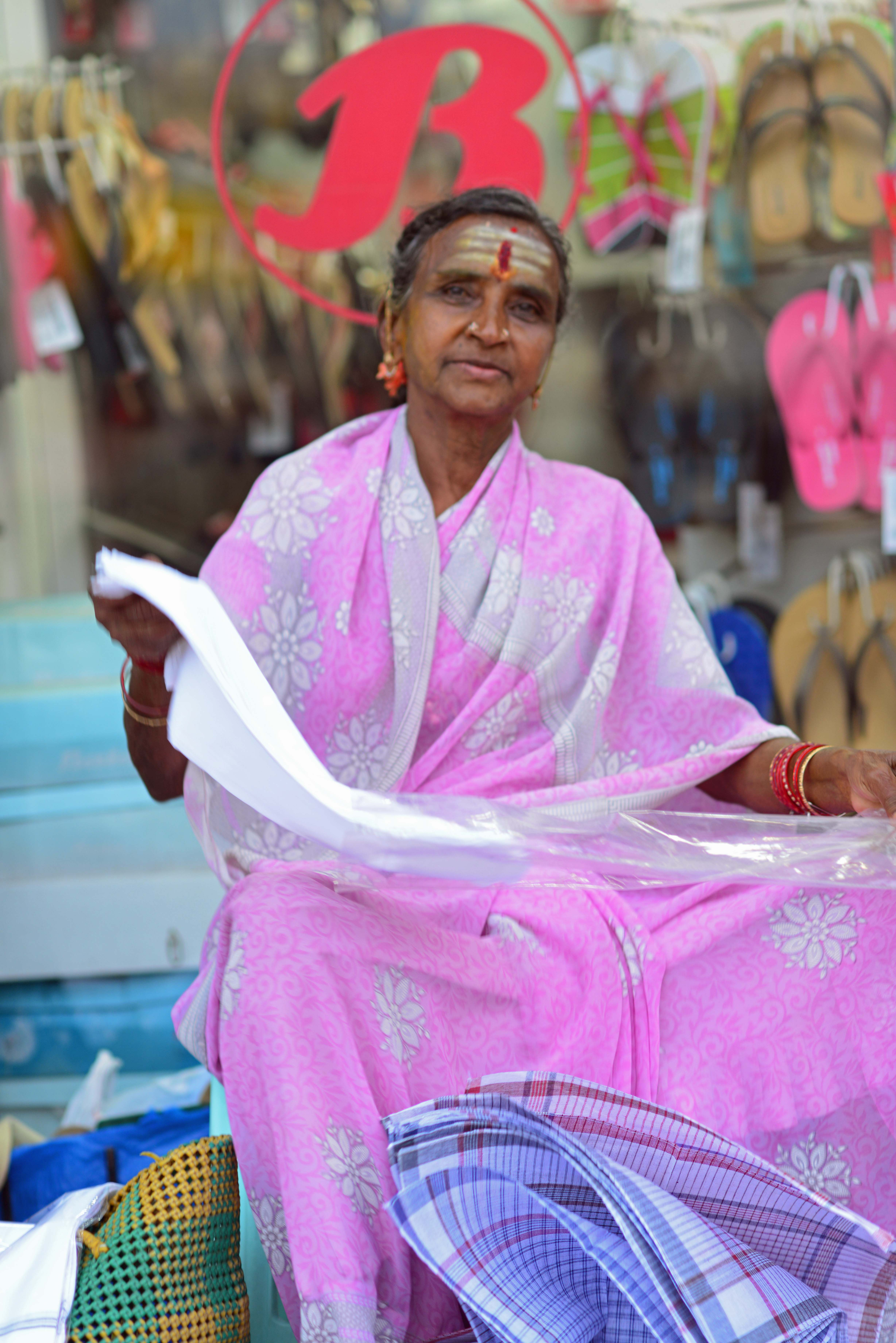 Elderly woman selling handkerchiefs at KR Circle, Mysore.